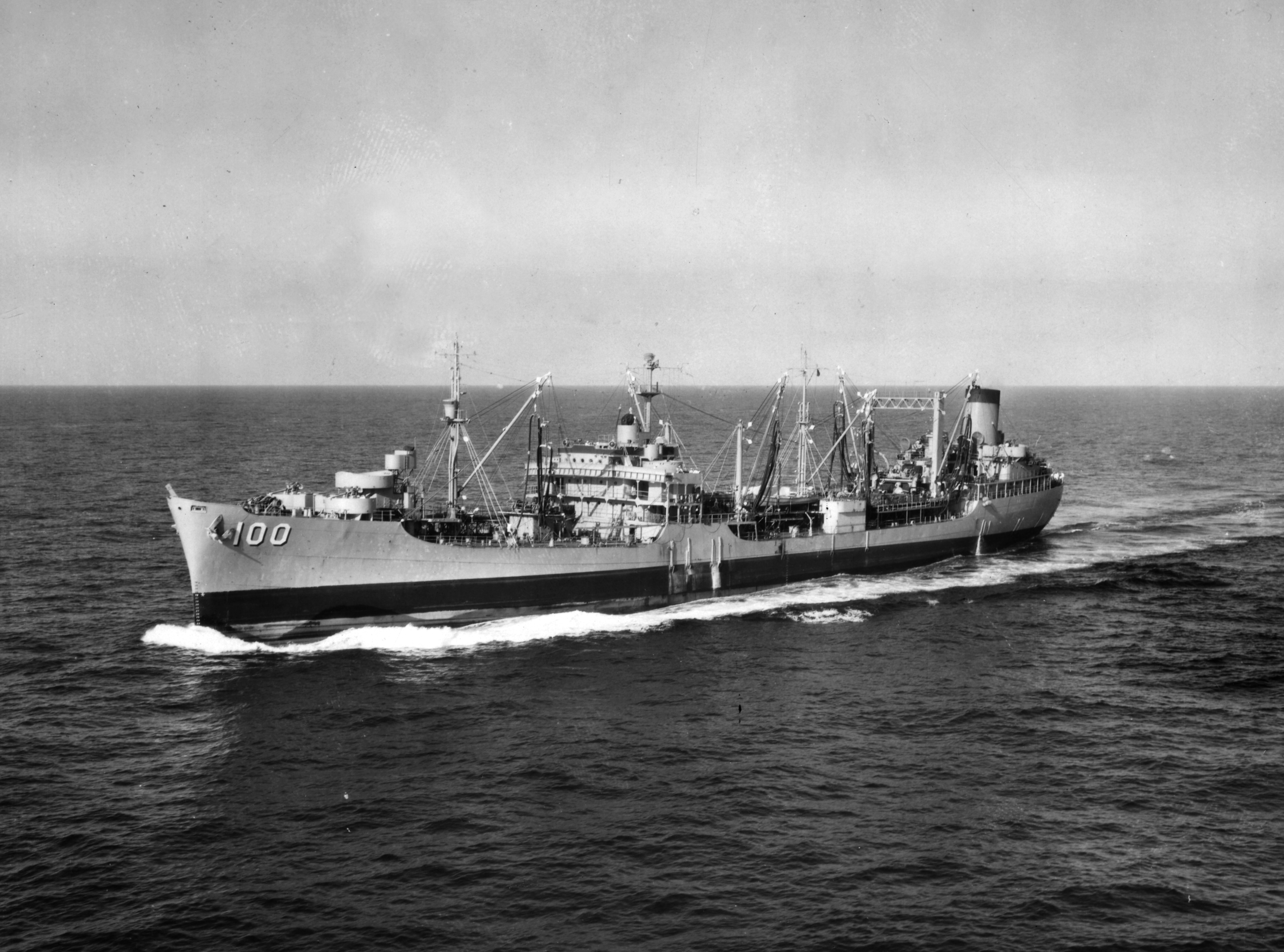 The U.S. Navy feet oiler USS Chukawan (AO-100) underway in the Mediterranean Sea, in 1958.